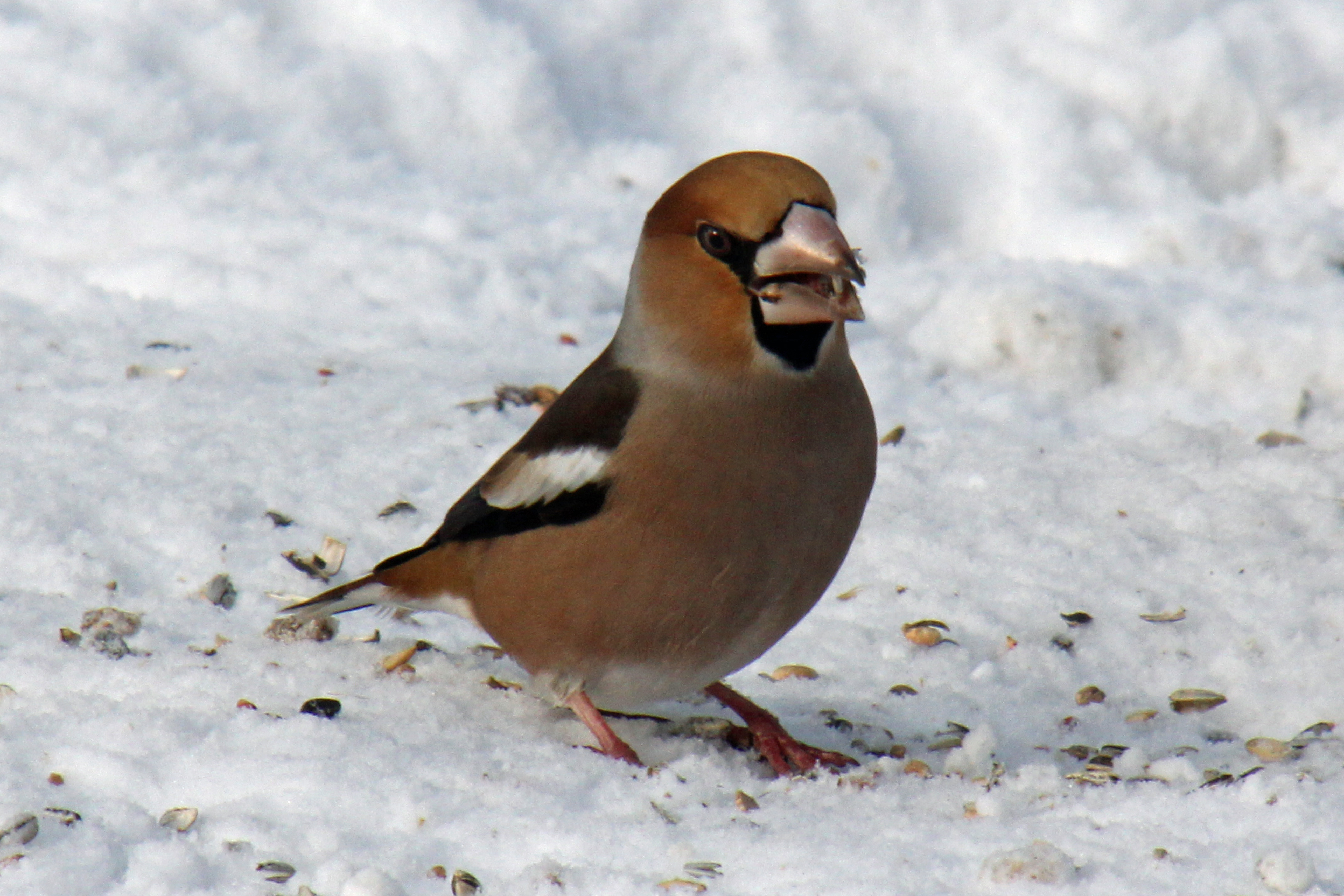 Coccothraustes coccothraustes in Winter